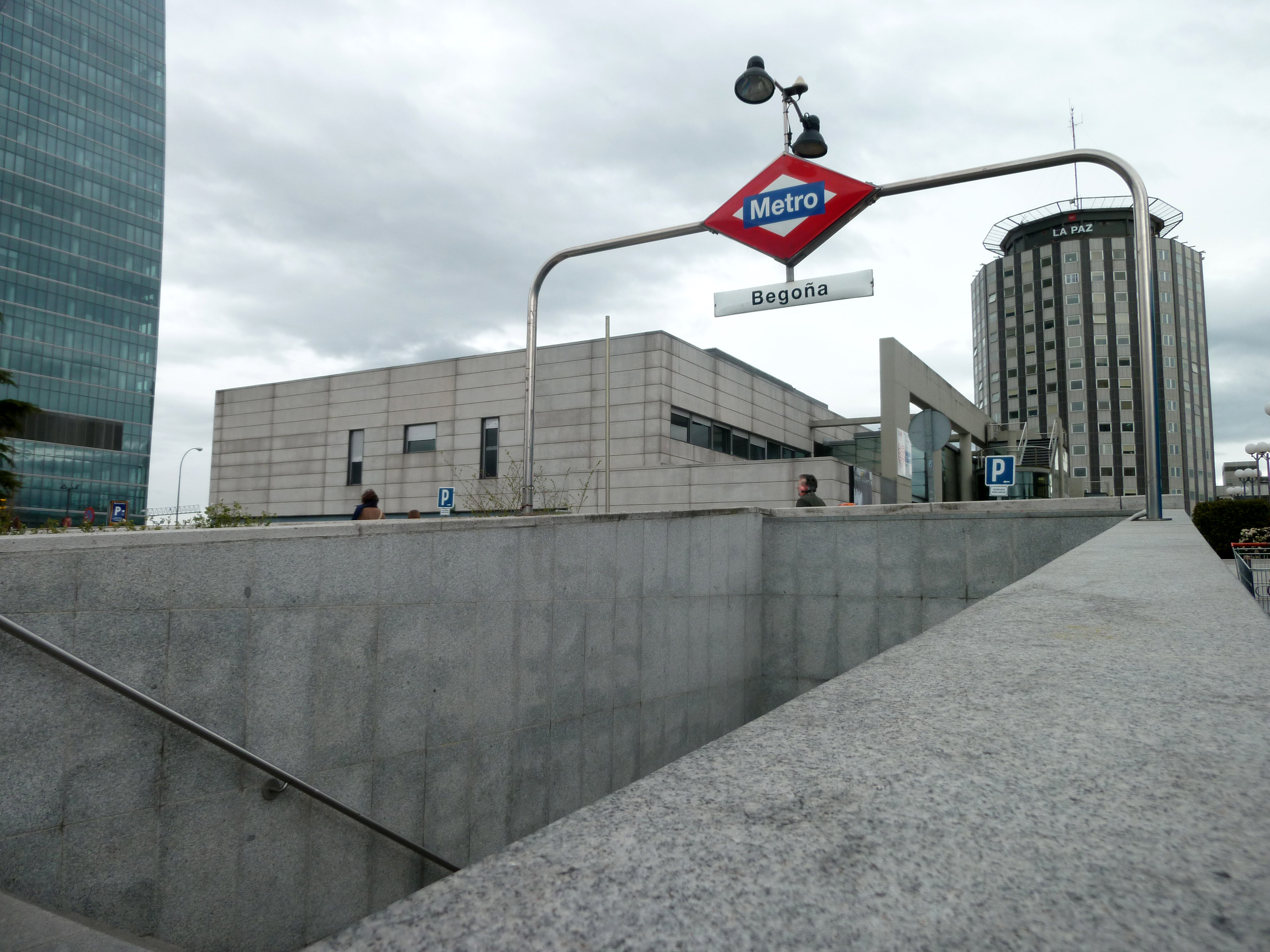 Entrance of Begoña metro station in Madrid (Spain), at 259 Paseo de la Castellana (avenue) in Fuencarral-El Pardo district.